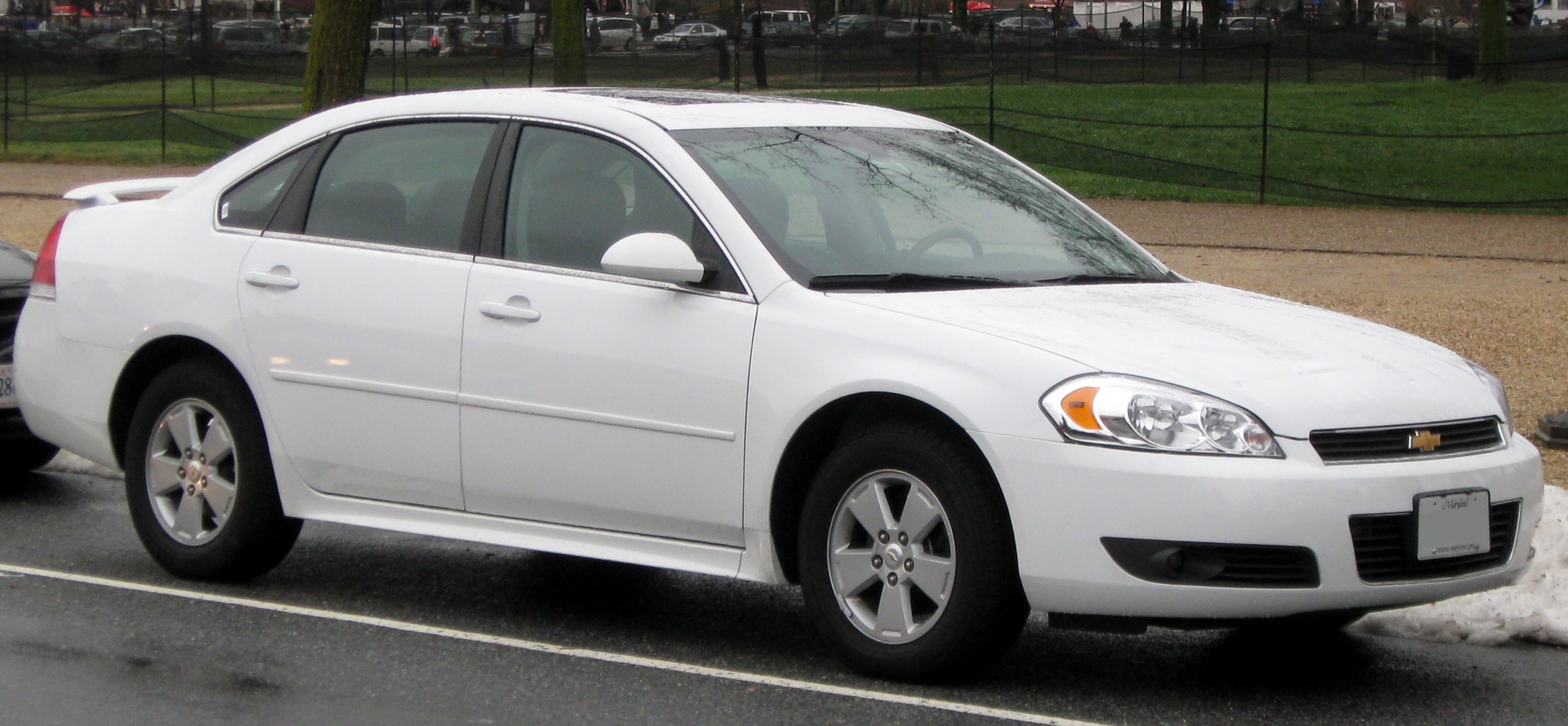 2010 Chevrolet Impala photographed in Washington, D.C., USA.